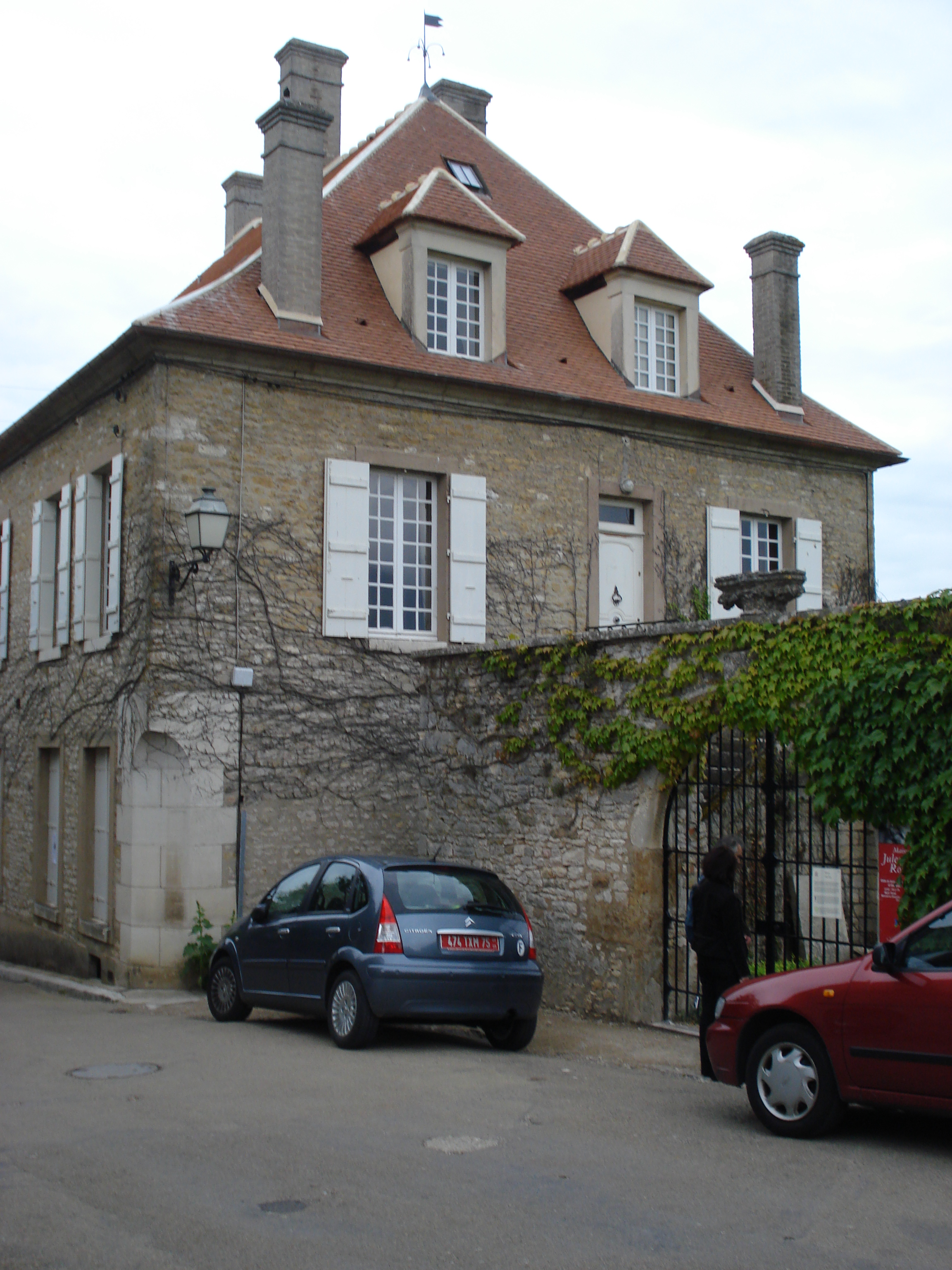 Maison de Jules Roy à Vézelay.